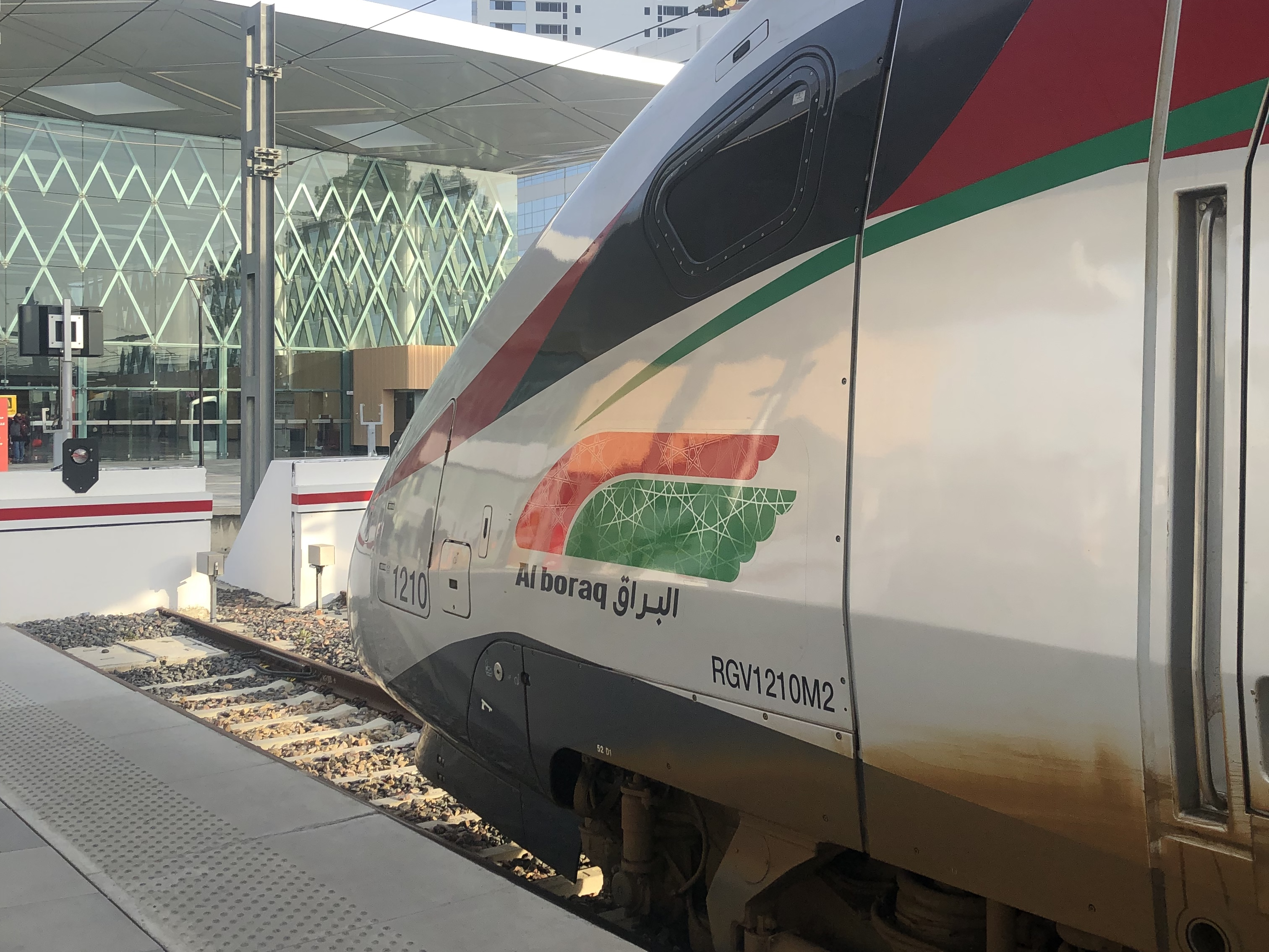 An Al-Boraq ONCF Alstom RGV2N2 at the station in Tangier